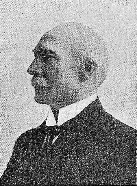 H.N. Andersen (1852-1937) founder of ØK.